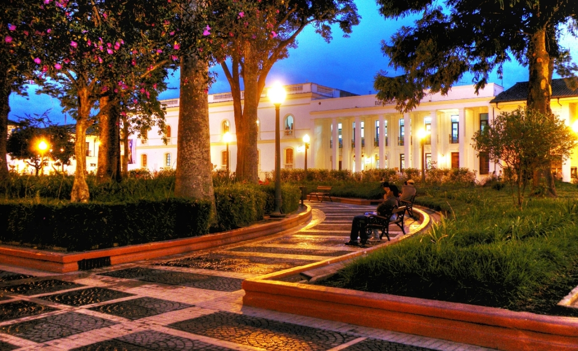 the white city in the night